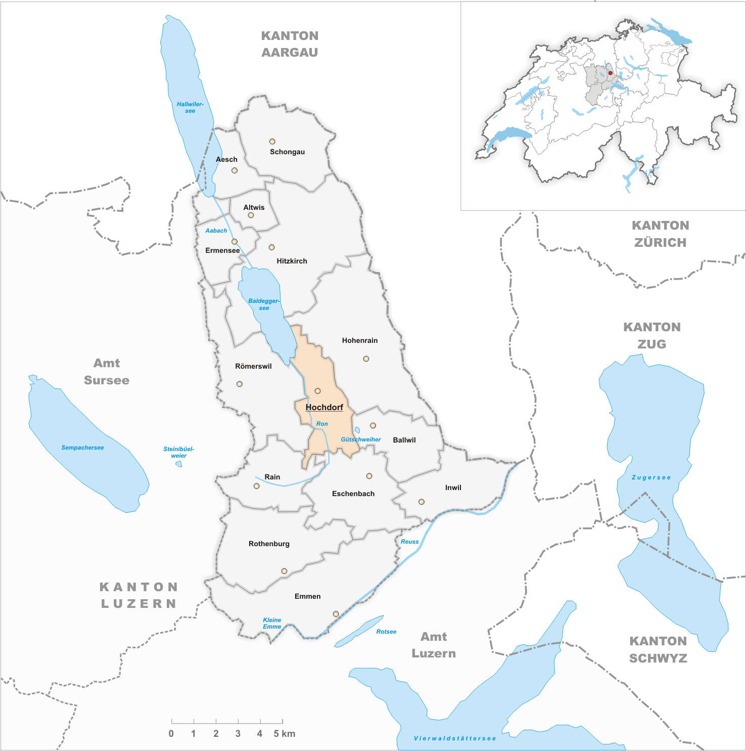 Municipality Hochdorf